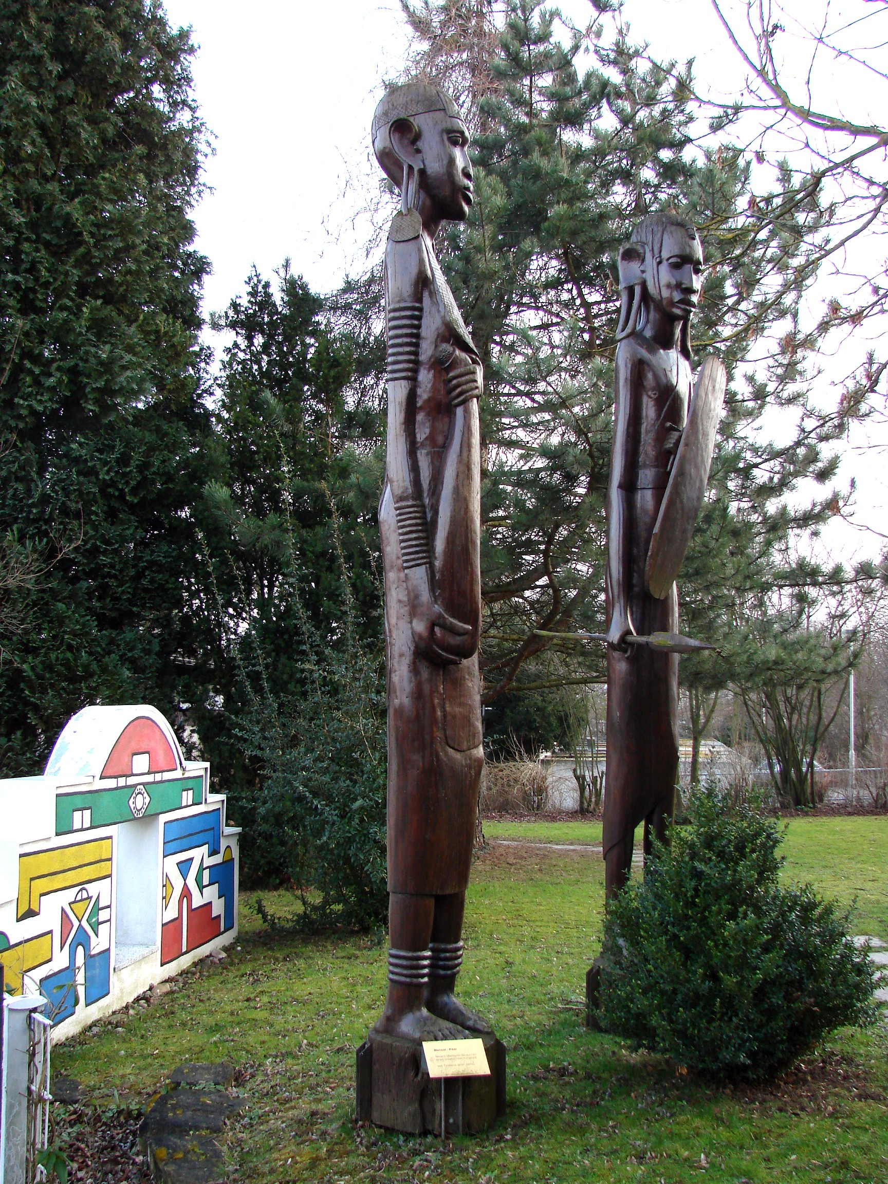 Freiberg am Neckar, Afrikahaus, Massai sculptures by unknown artist, around 1980, mahogany.